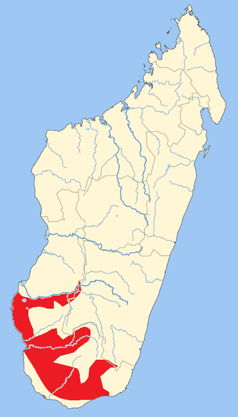 Native range of genus Cryptostegia grandiflora, adapted from McFadyen RE, Harvey GJ. Distribution and control of rubbervine, Cryptostegia grandiflora, a major weed in northern Queensland. Plant Protection Quarterly 1990; 5: 152–5. Cryptostegia grandiflora